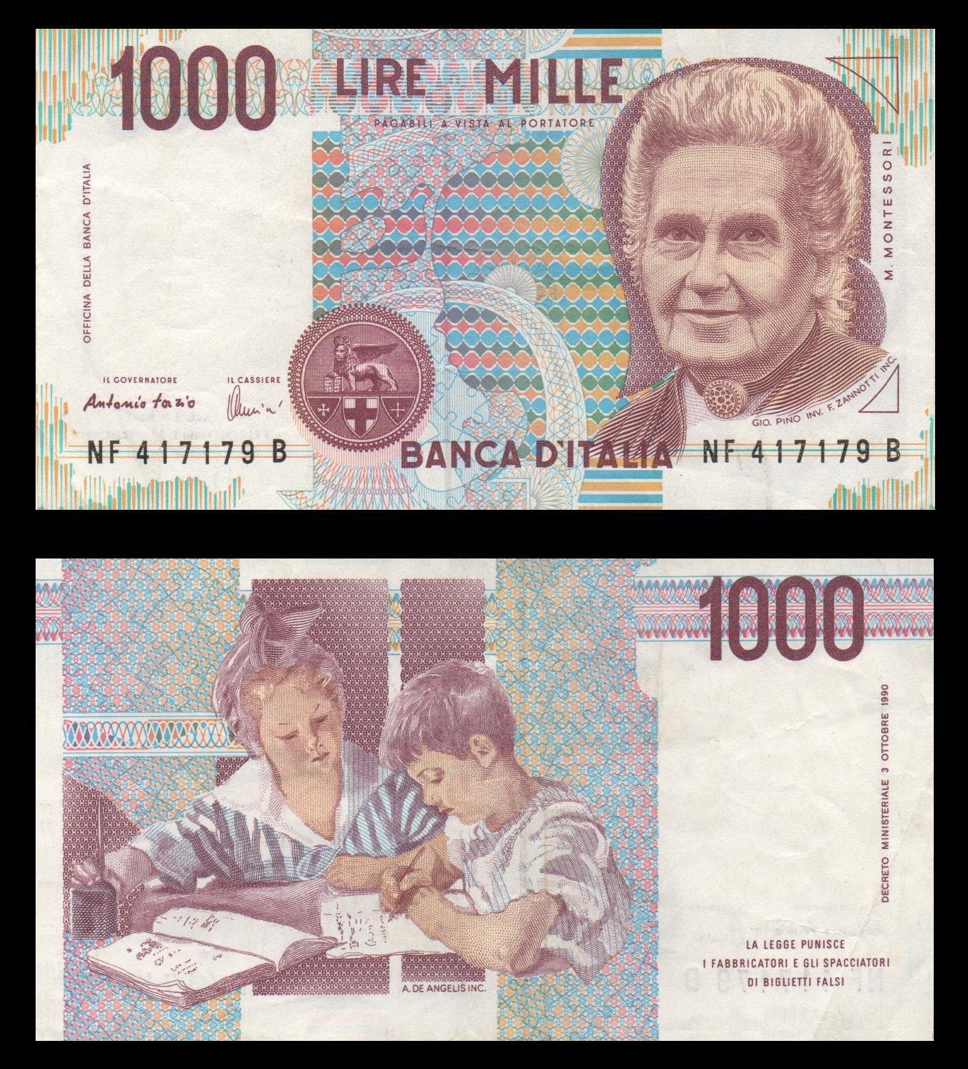 Italian ₤ 1000 banknote (1990–1998) representing Maria Montessori.